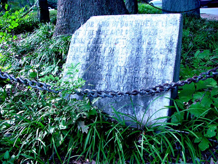 The older plaque at the site of the Tree That Owns Itself.